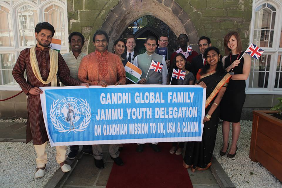 A team of Young Gandhians visit Leicester, UK